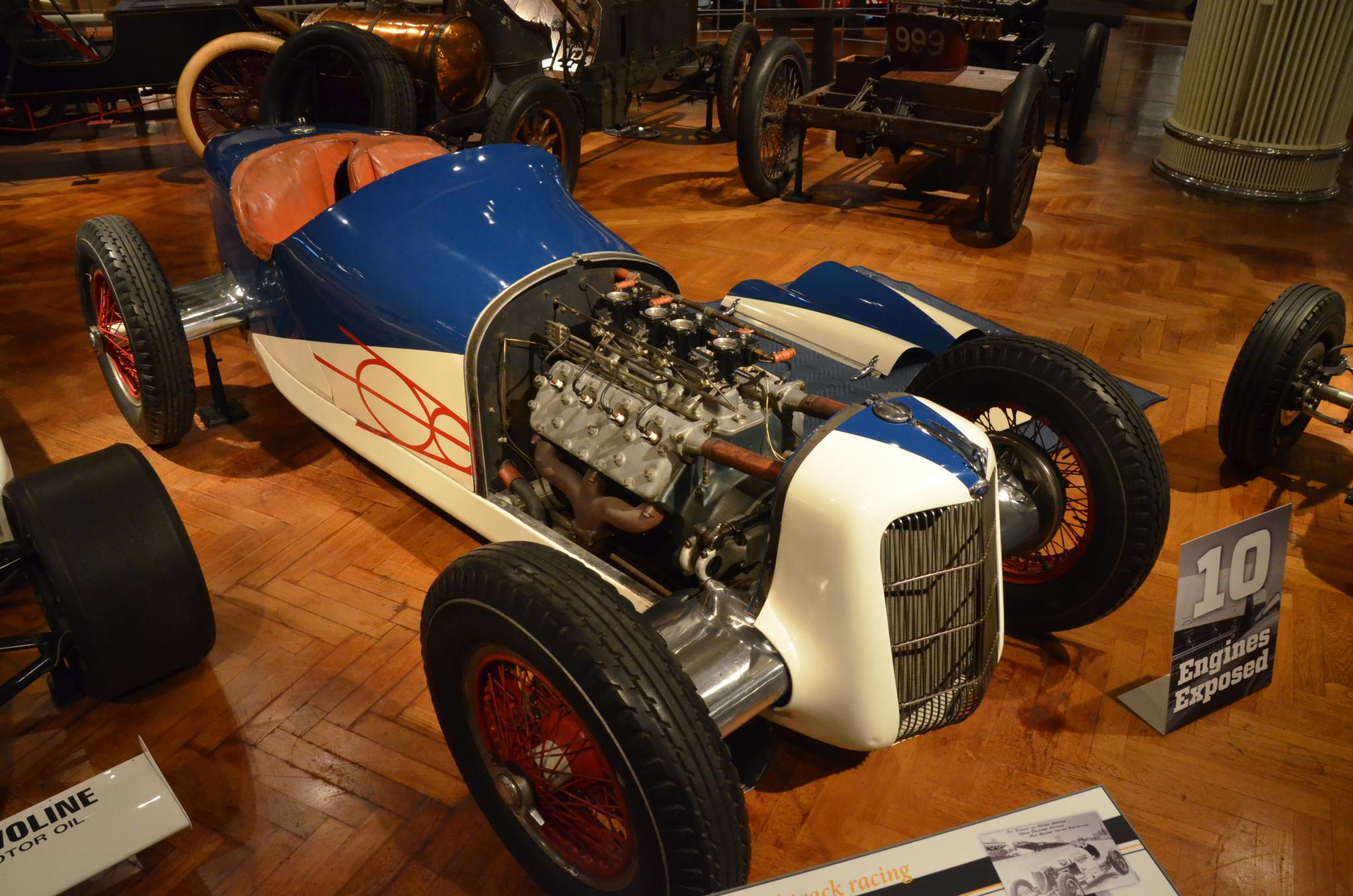 For about 6 weeks in January and February, the Henry Ford museum in Dearborn, Michigan opens the hoods on about 50 of it's iconic vehicles. Here is a photo of one of the vehicles on display.